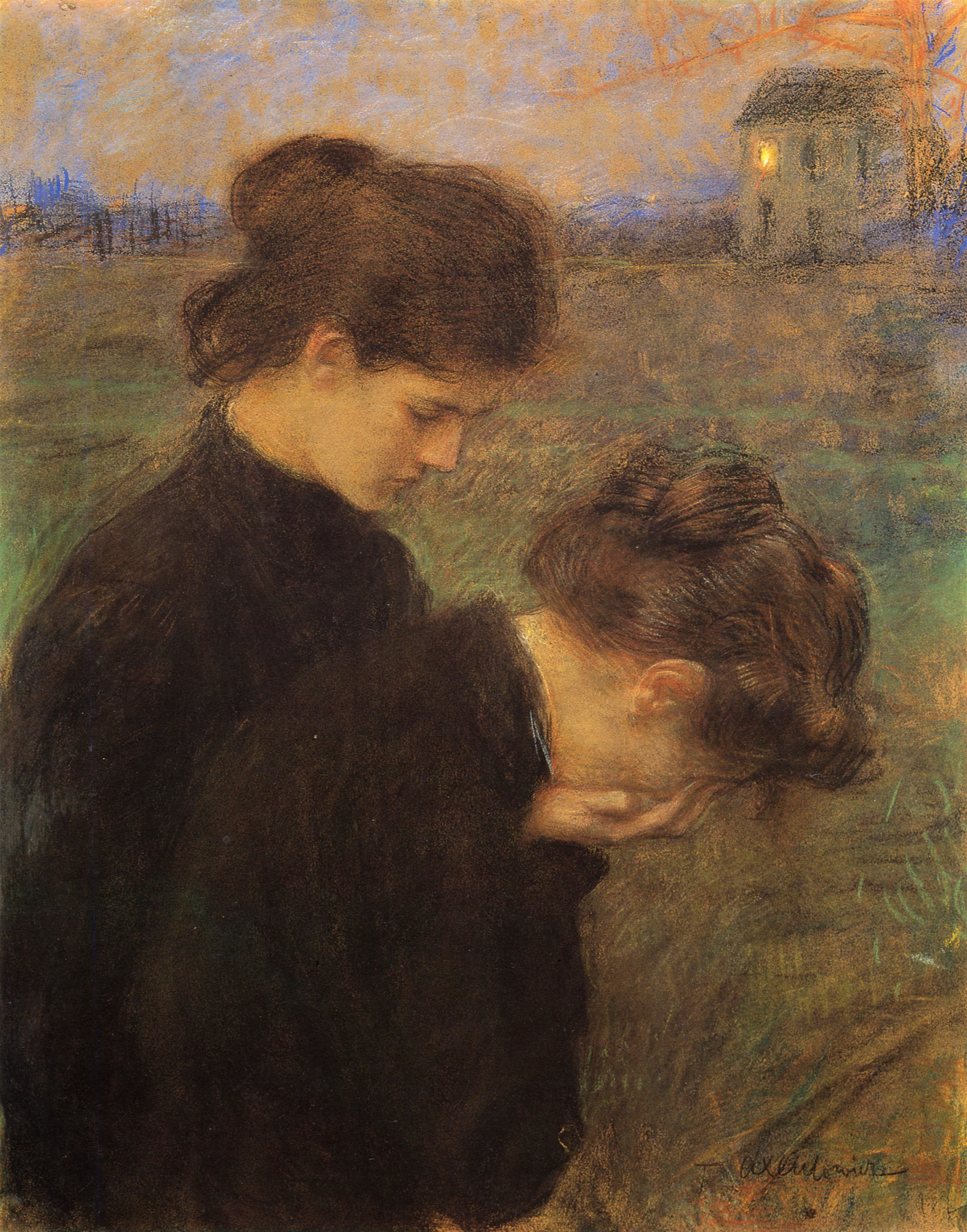 Theodor Axentowicz: "Under the burden of adversity"